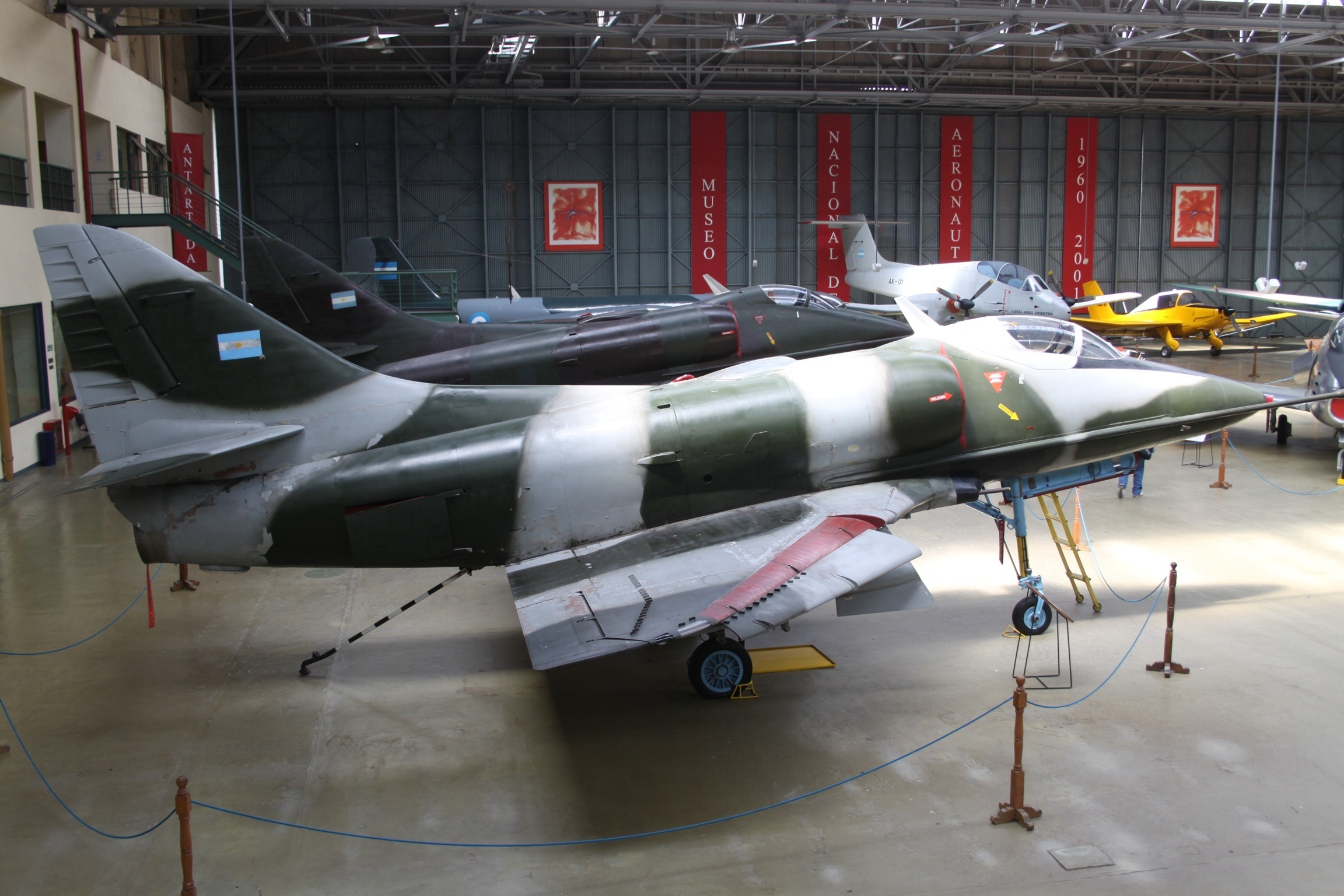 At Moron Museo Nactional De Aeronautica